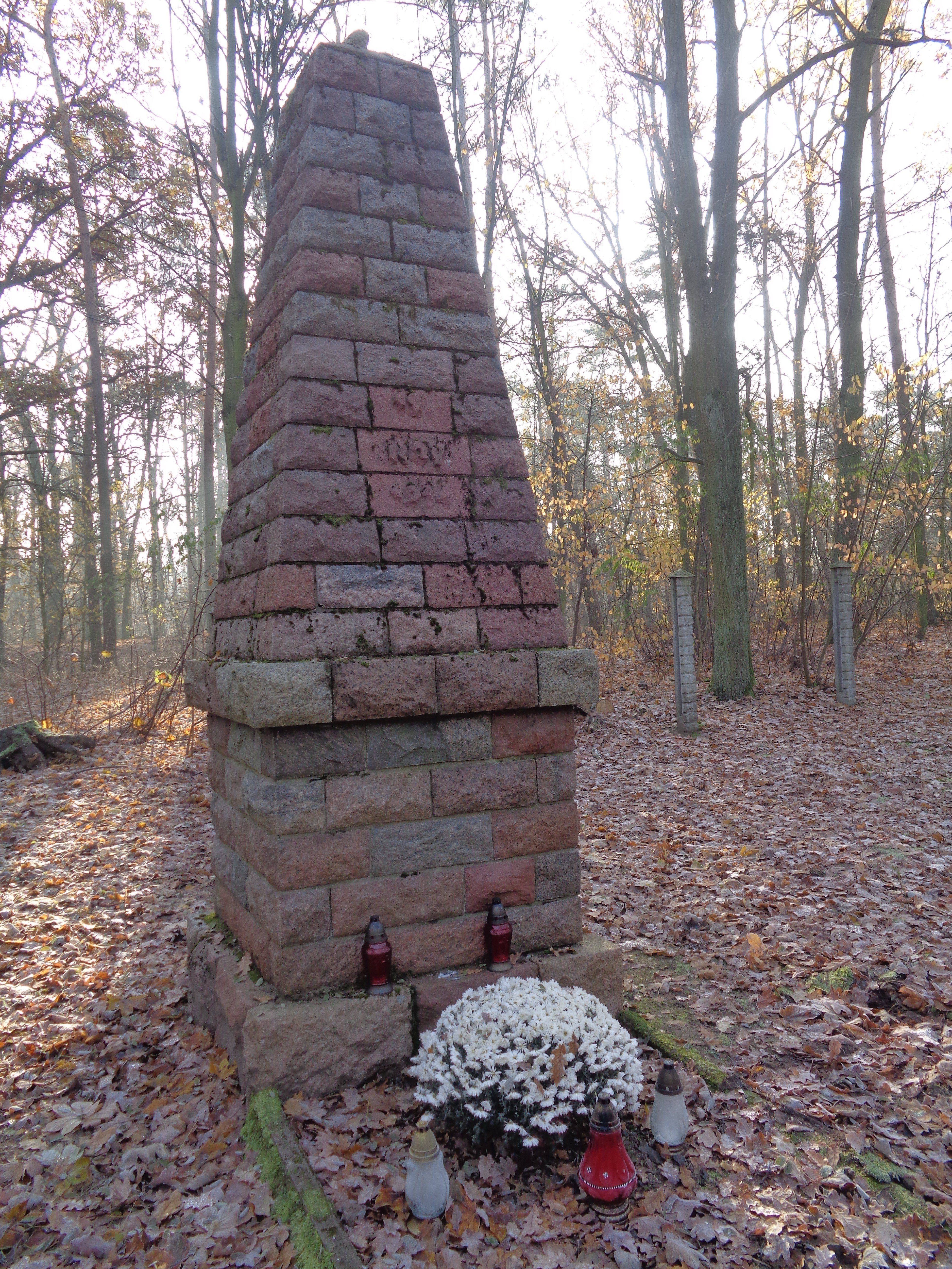 Monument of the soliders who died in Battle of Włocławek on the cemetery from 1914 year.